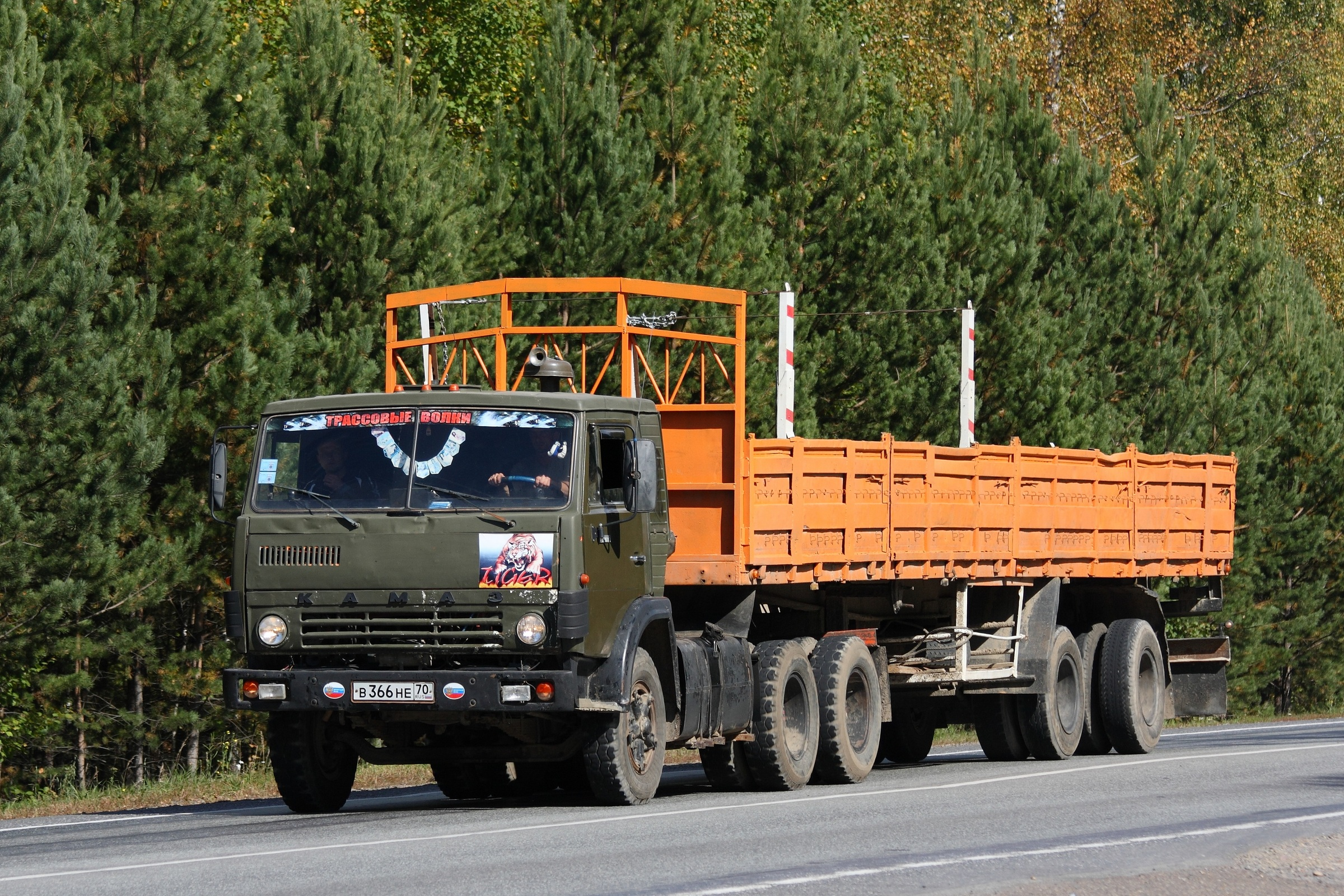 KamAZ-5410 in Tomsk Oblast, Russia